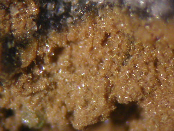 Nickelschneebergite (picture size: 1.8 mm) Locality: Am Roten Berg, Schneeberg, Erzgebirge, Saxony, Germany